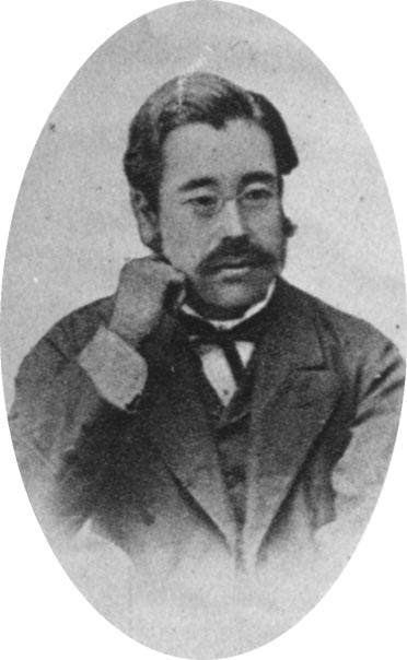 Junichi Tsuda.